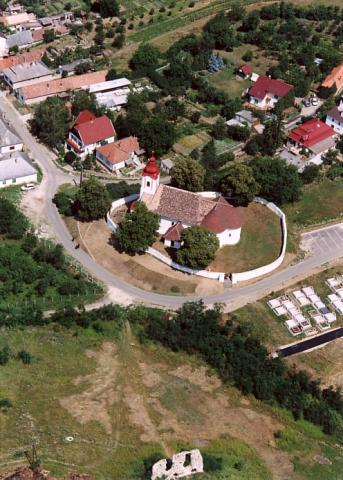 Tar, Hungary, aerialphotography